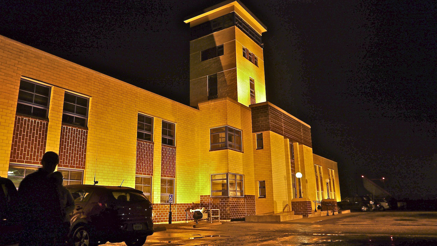 The National Voice of America Museum of Broadcasting is the main building and campus of the original VOA, Bethany Relay Station. Three museums — the Gray History of Wireless Museum, the National Voice of America Museum of Broadcasting and the Media Heritage collection along with the West Chester Amateur Radio Association WC8VOA — occupy portions of a cavernous building that was constructed nearly 70 years ago and originally housed several custom-built 250 kW HF transmitters.